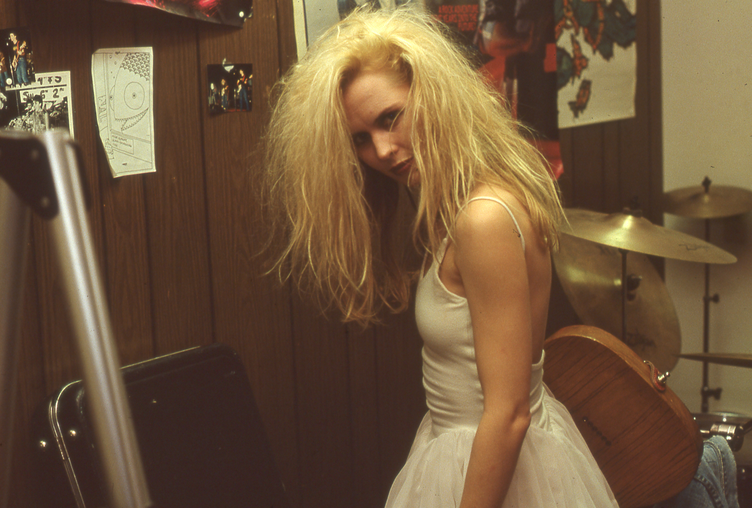 Donnette Thayer, rhythm guitarist and backing vocalist of Game Theory in the late 1980s, in rehearsal studio.